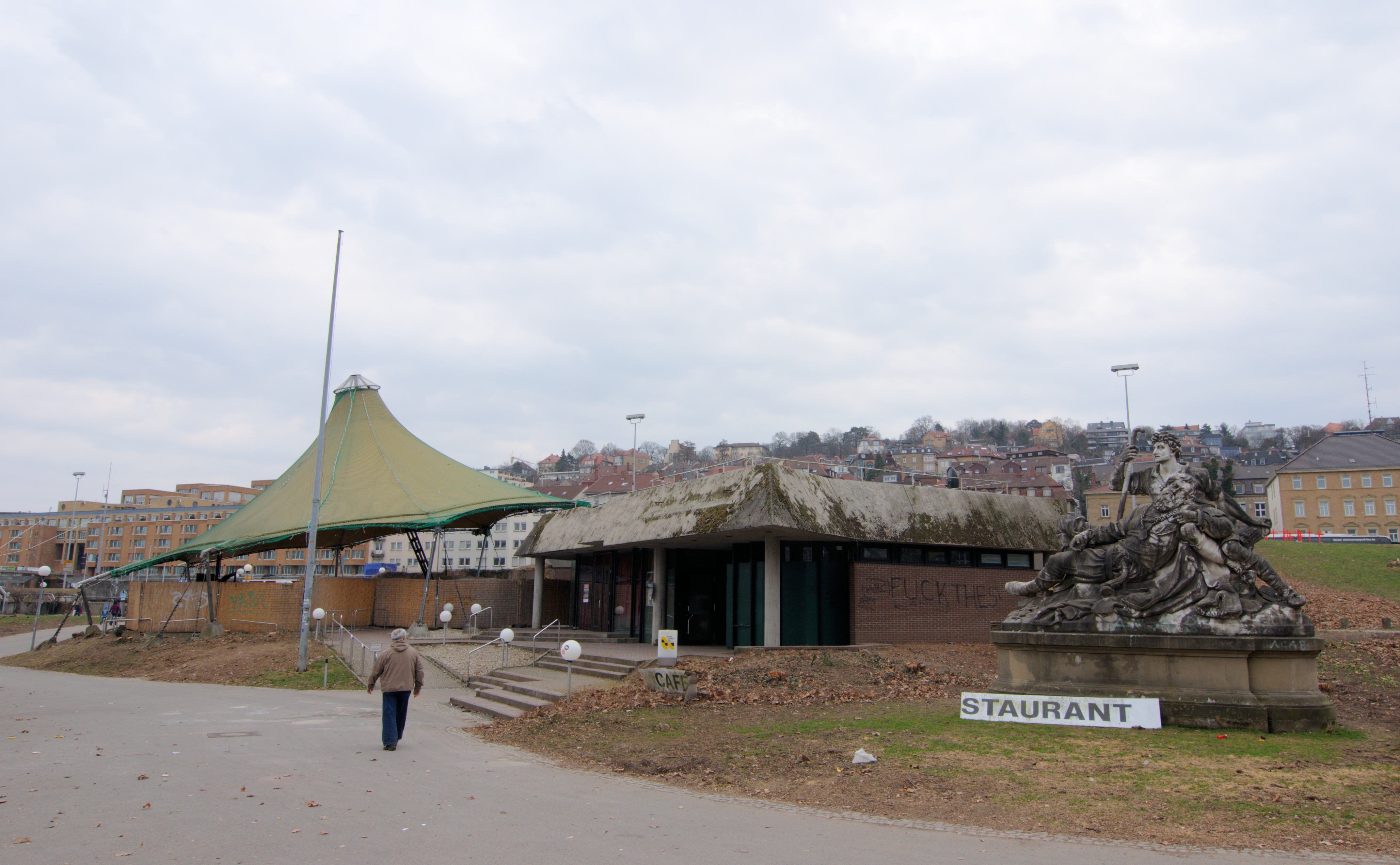 The former pavilion of the land in Stuttgart's Schlossgarten shall be demolished during the Stuttgart 21 project.